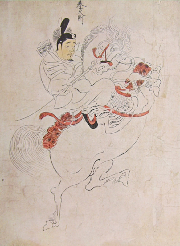 Portraits of imperial guardians detail, handscroll, ink and colour on paper, ACE1247, Okura Museum of Art, Tokyo, JAPAN